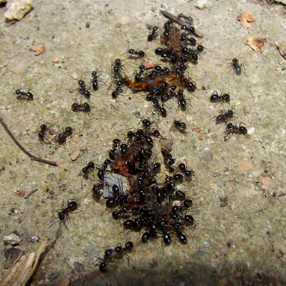 Lasius fuliginosus worker Česky: Mravenec černolesklý dělnice